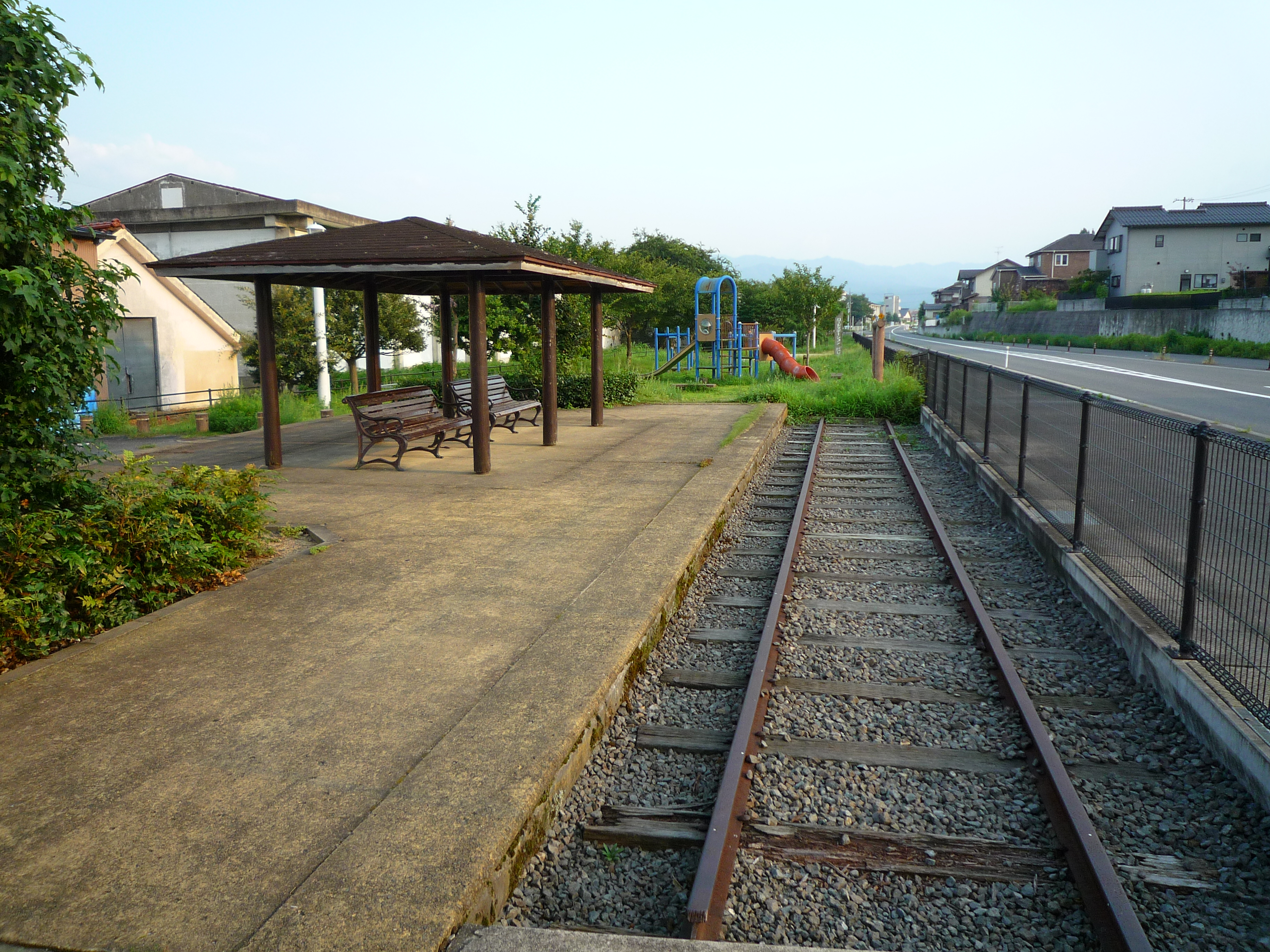 Road Station Nishikura. Vestige of Nishikurayoshi Station of JNR Kurayoshi Line, Kurayoshi City(area of ex.Sekigane Town), Tottori Prefecture, Japan.